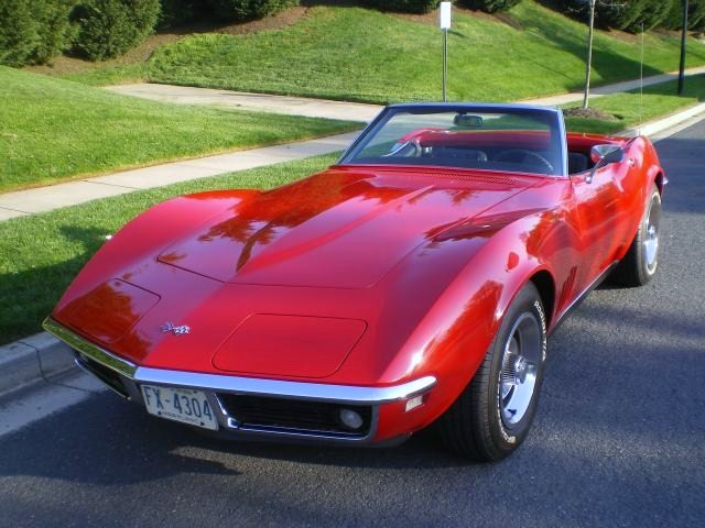 1968 Corvette convertible.